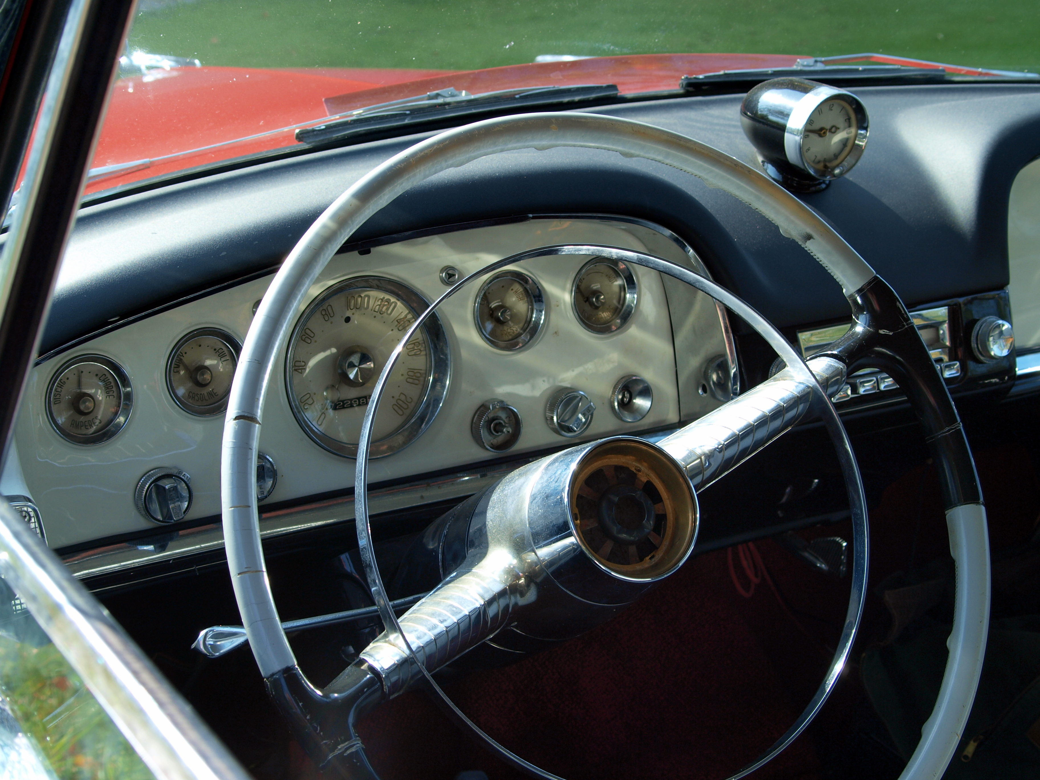 Photographed at the premmesis of the Louwman museum, The Hague, The Netherlands. OLYMPUS DIGITAL CAMERA